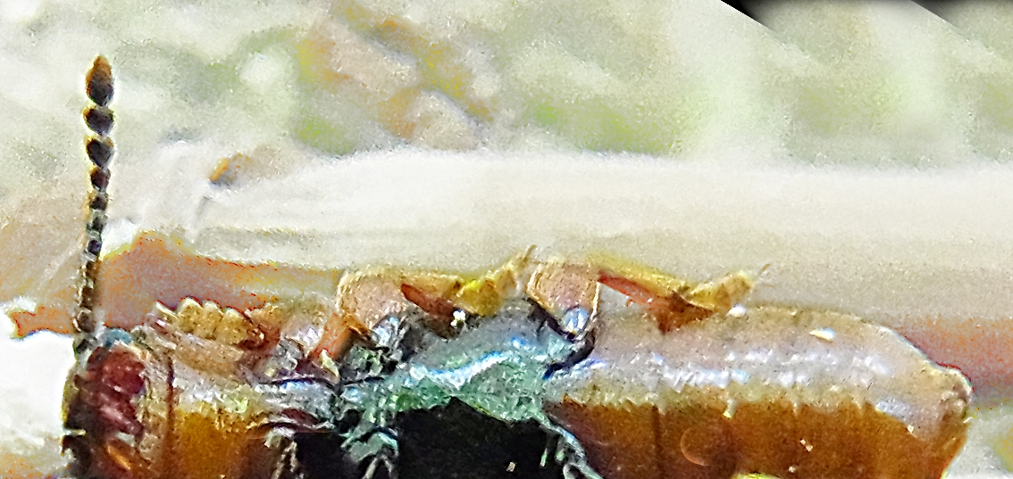 Triplax russica, from Hungary, Bükk-mountains under bark of rotten beech at 2012-07-02, part of underside